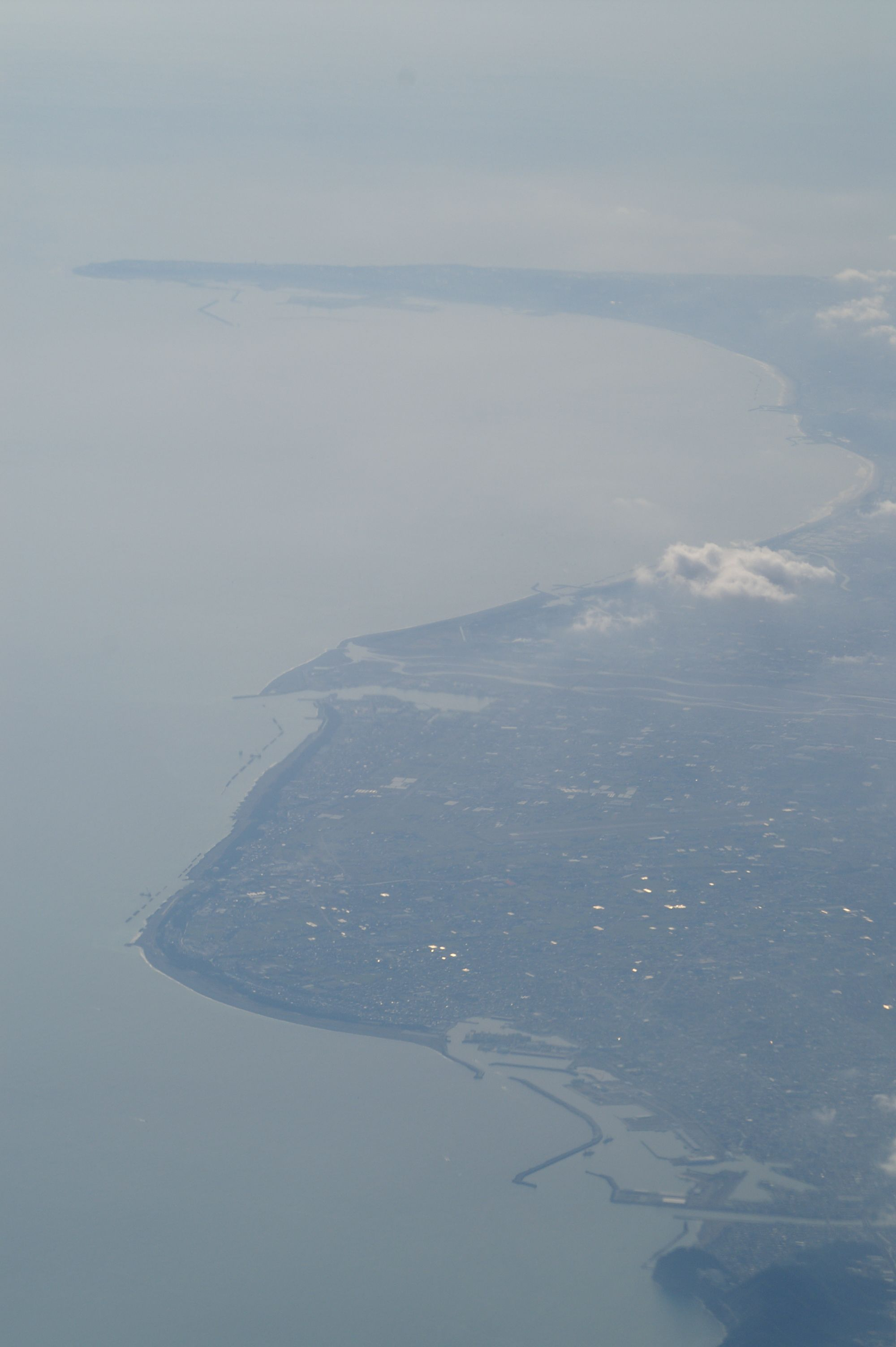 Flight view of the western end of Suruga Bay in Shizuoka prefecture, Japan.